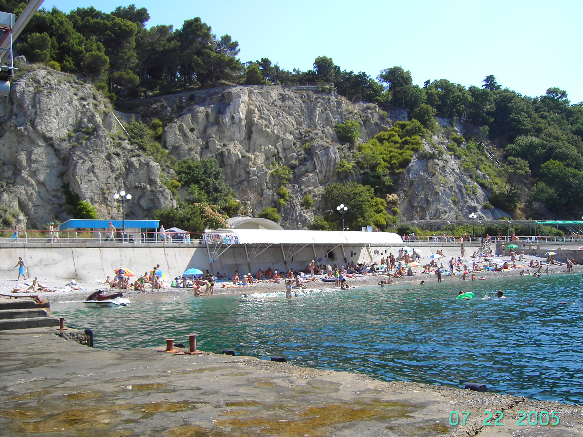 View of a beach in Gaspra. I took this photo on August 22, 2005